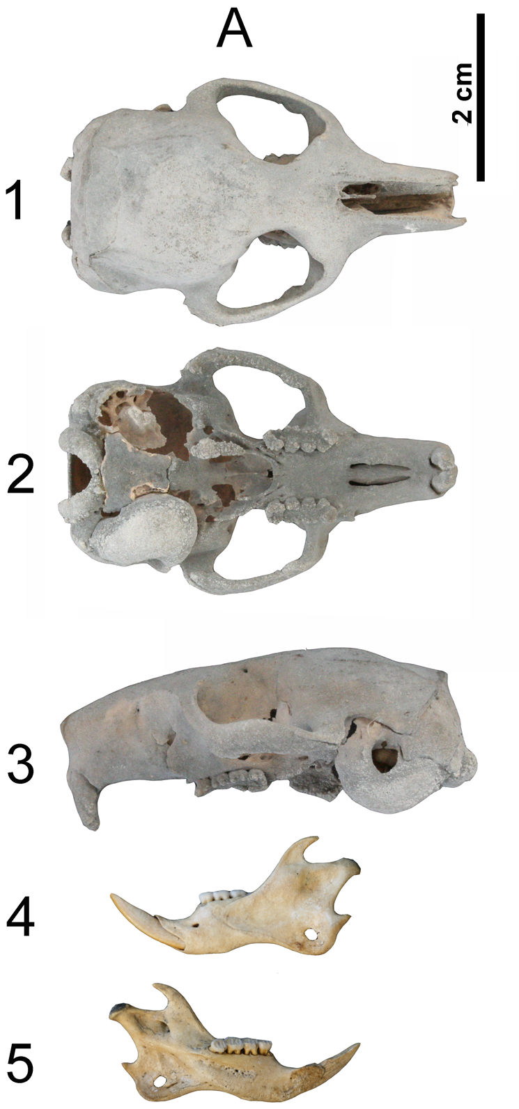 Skull of Hypnomys morpheus. View: 1) dorsal, 2) ventral and 3) lateral views. Mandible in 4) labial and 5) lingual views.